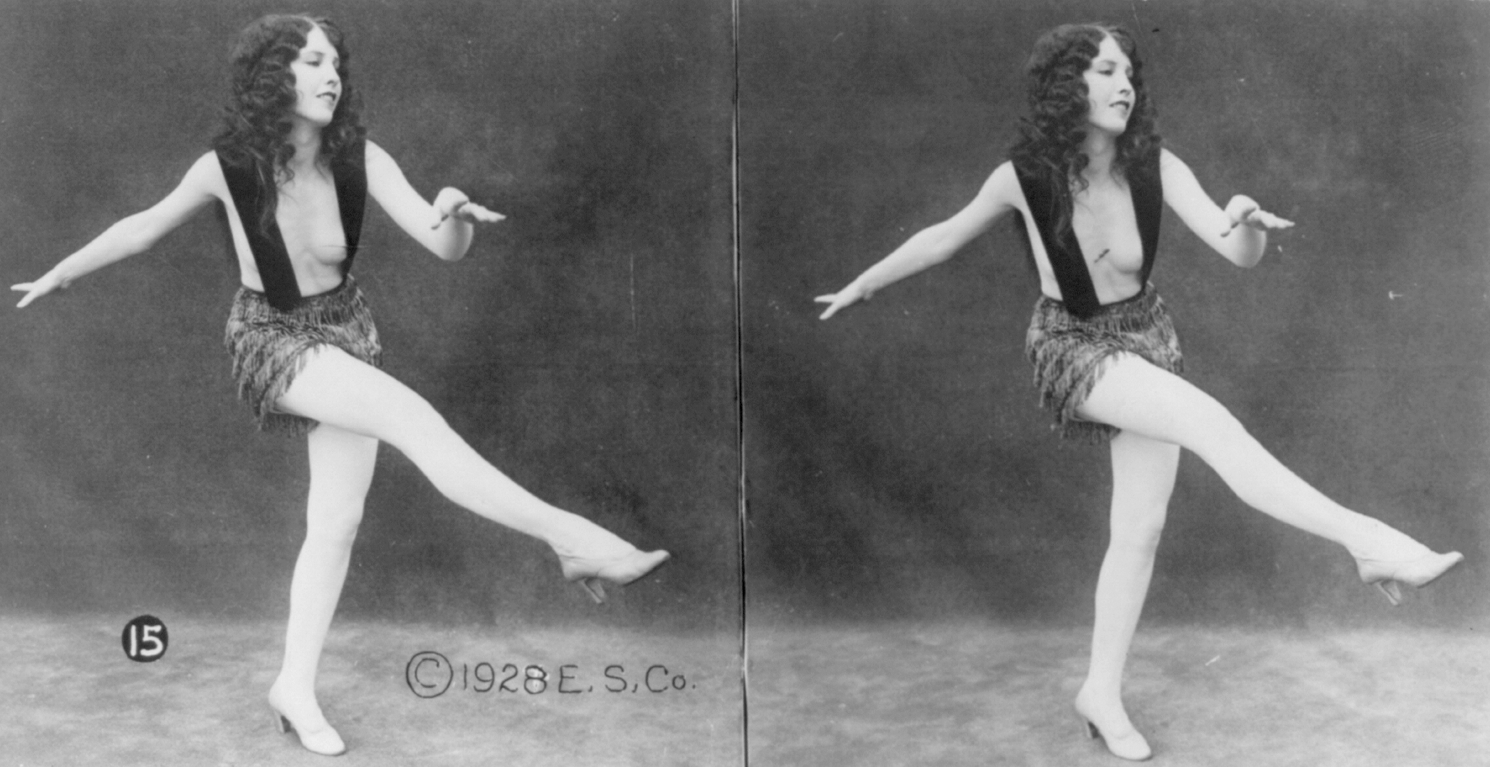 "Syncopating Sue", 1928. "Cheesecake" stereo card view of a scantily clad woman doing "Charleston kick."